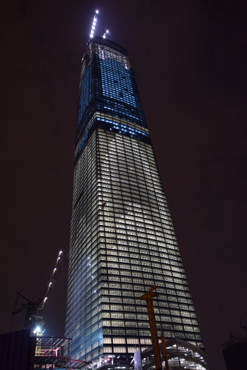 The Exhange 106 tower in Tun Razak Exchange (TRX) KL Malaysia